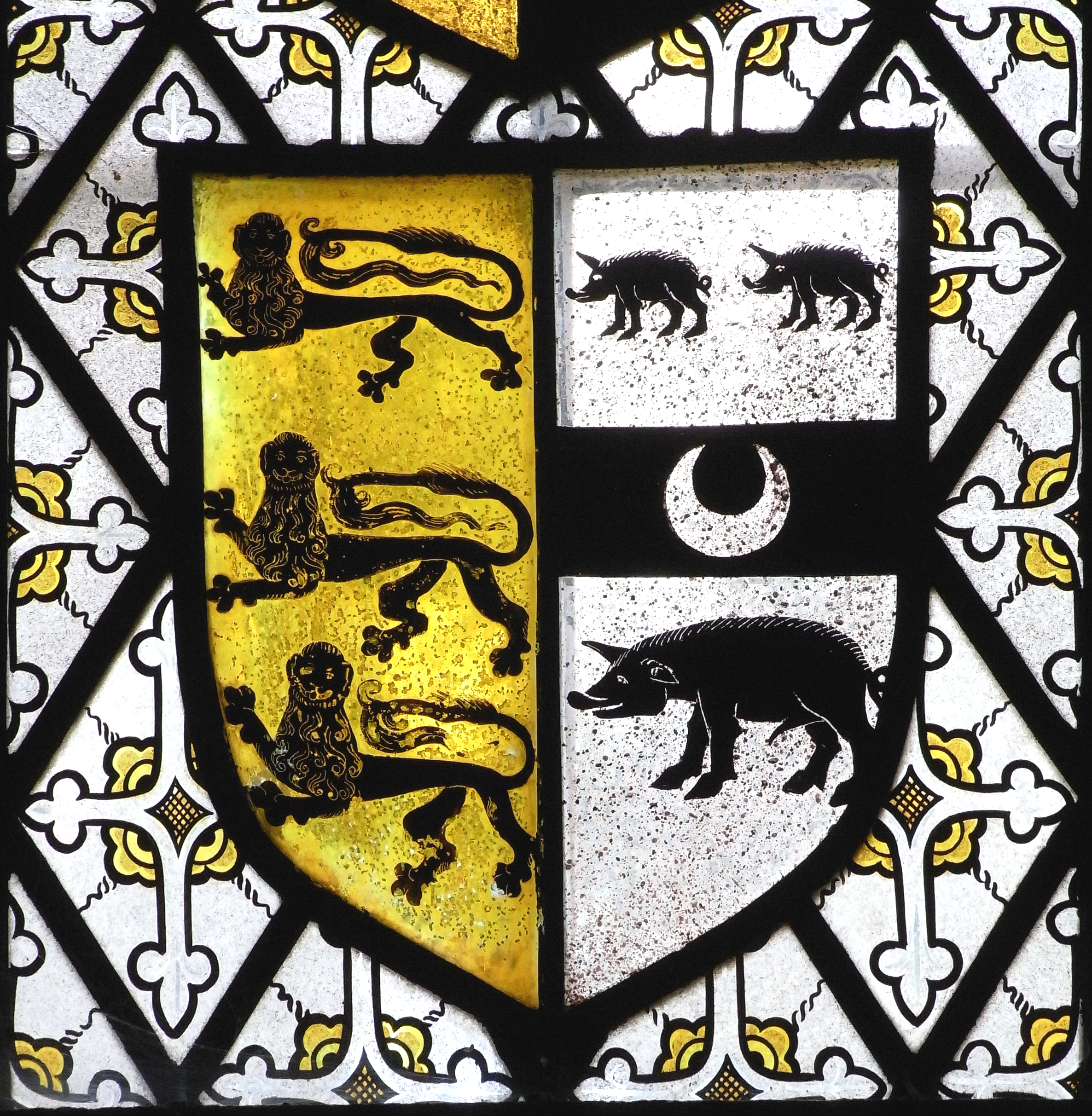 Detail from 19th century stained glass window in Shillingford St George Church in Devon, showing arms of Sir Edmund Carew (1465-1513) of Mohun's Ottery, Devon (Or, three lions passant in pale sable) (shown here incorrectly as passant guardant) impaling Huddesfield (Argent, a fess between three boars passant sable), for his wife Katherine Huddesfield (died 1499) one of the daughters and co-heiresses of Sir William Huddesfield (died 1499) of Shillingford St George, Attorney-General to Kings Edward IV (1461–1483) and Henry VII (1485–1509).